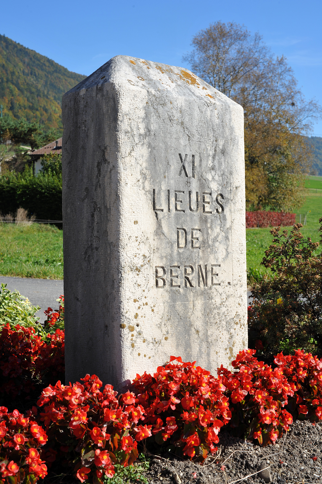 Milestone „XI hours from Bern“ in Cortébert; Bern, Switzerland.